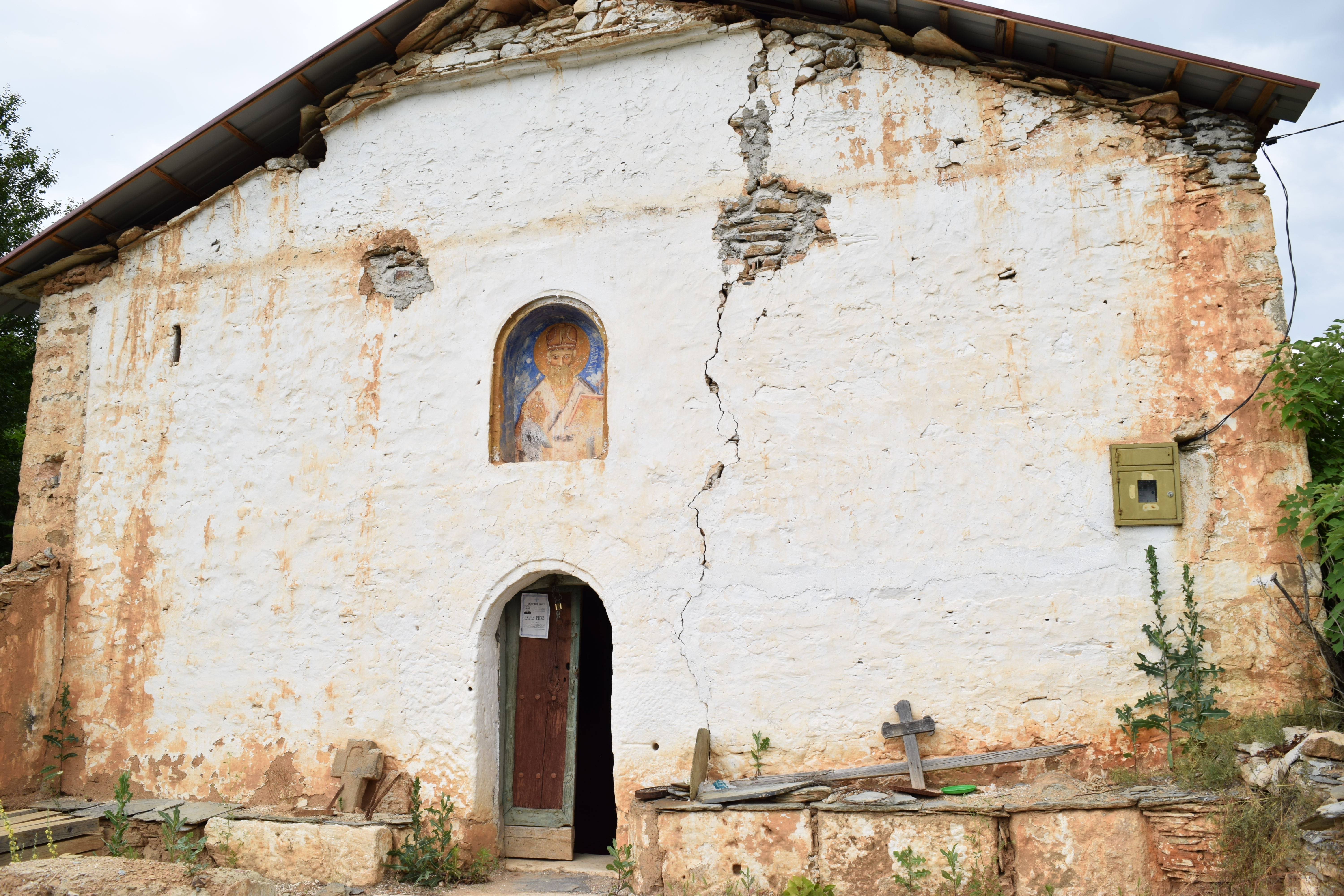 View of the St. Athanasius Old Church in the village Vojnica